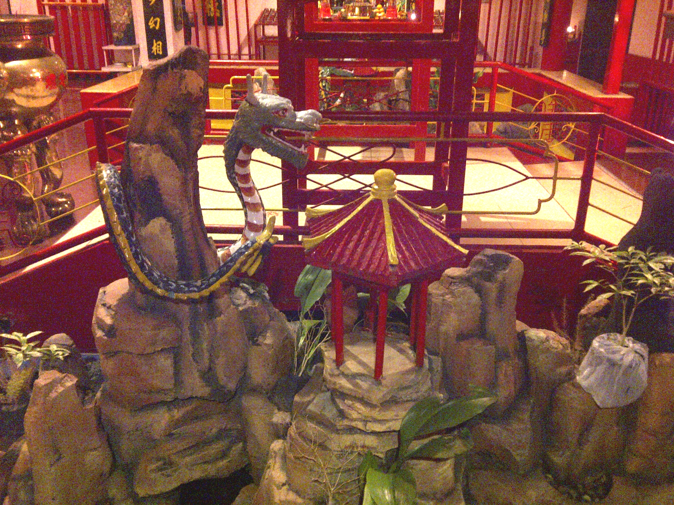 Fish pond inside Tik Liong Tian Temple, Rogojampi, East Java, Indonesia